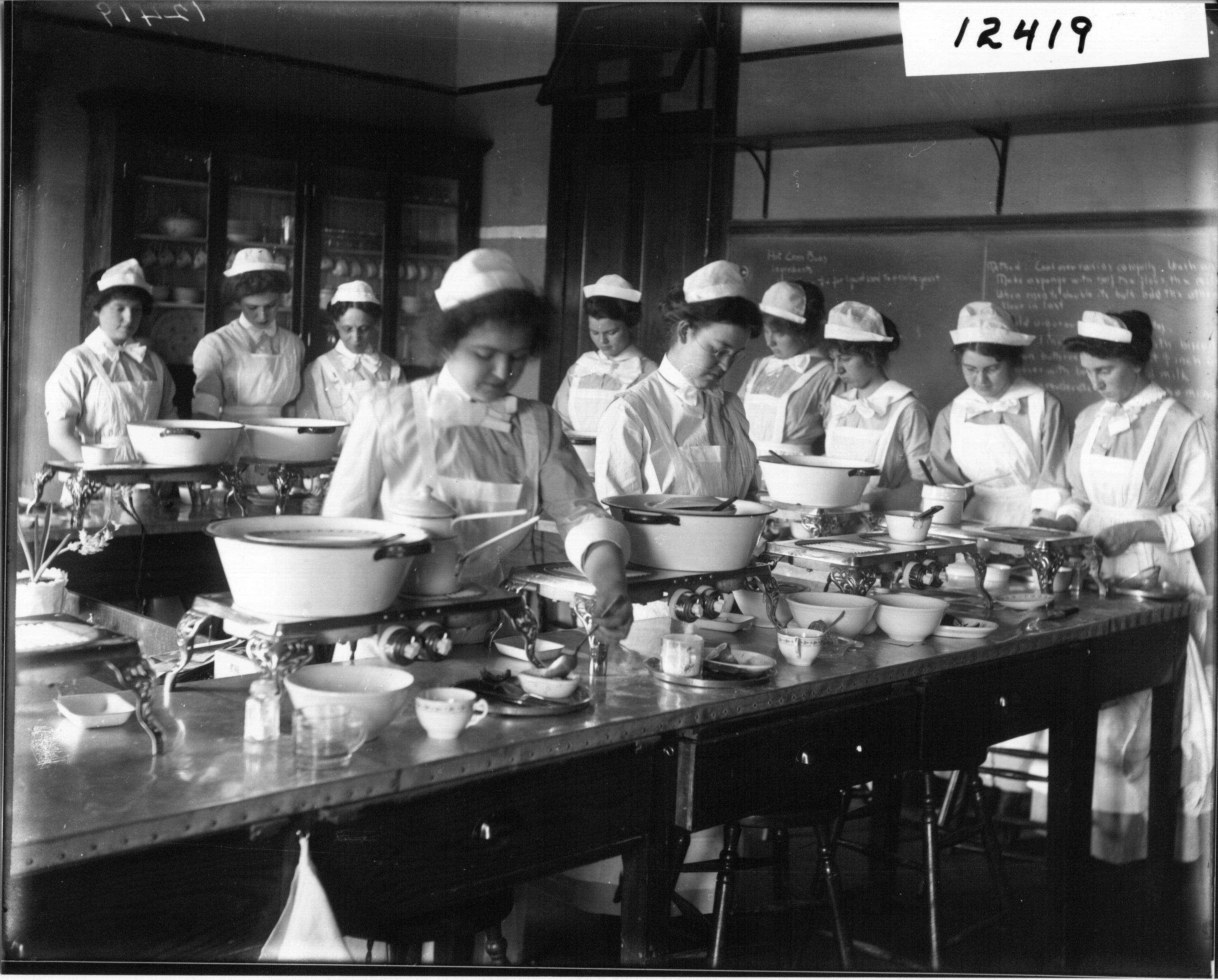 Persistent URL: Subject (TGM): Teachers' colleges; Women's education; Cookery; Students; Home economics; Classrooms; Location: Oxford, Ohio